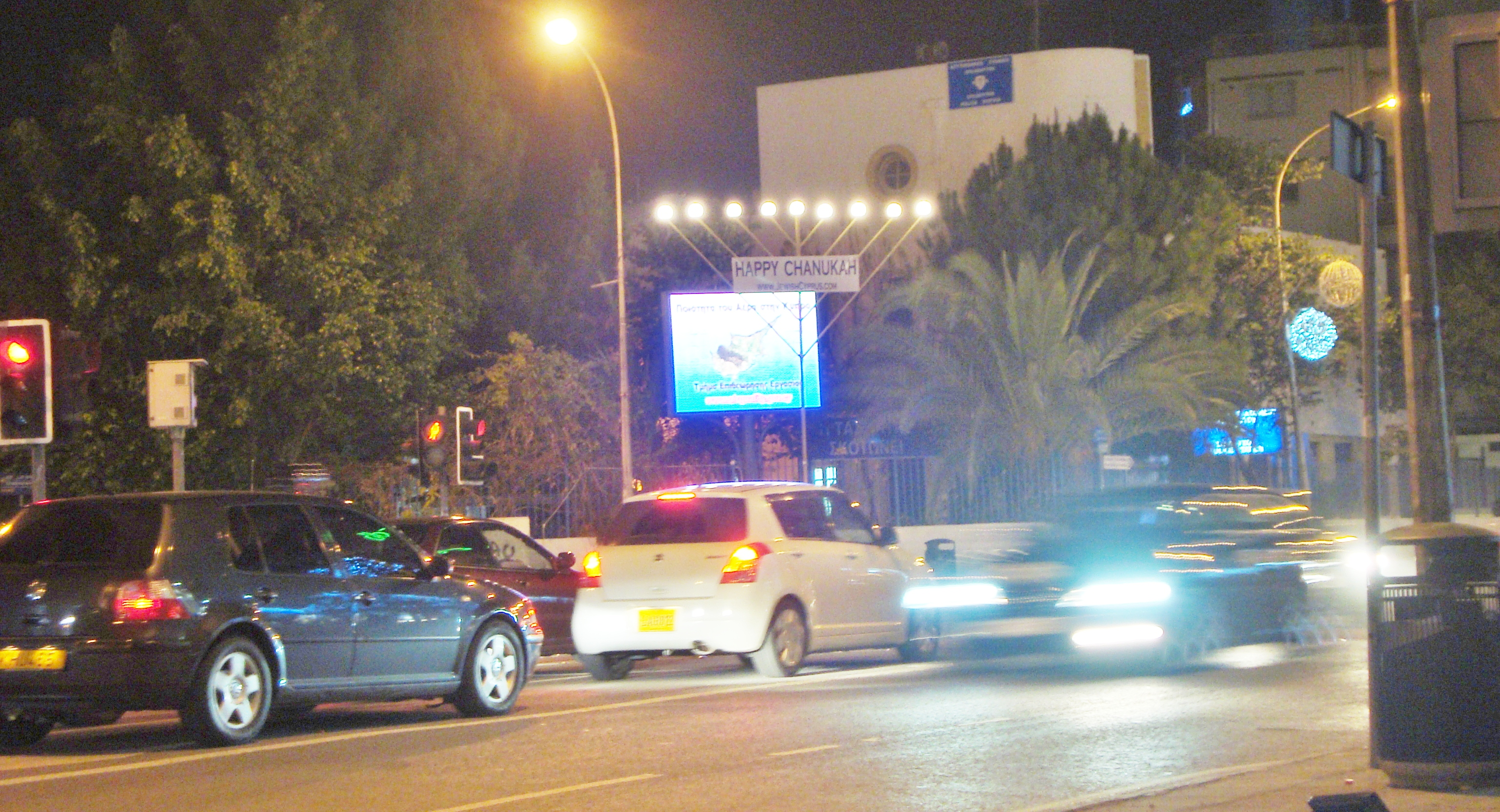 Jews for Cyprus sign "Happy Chanukkah" in Makariou Avenue